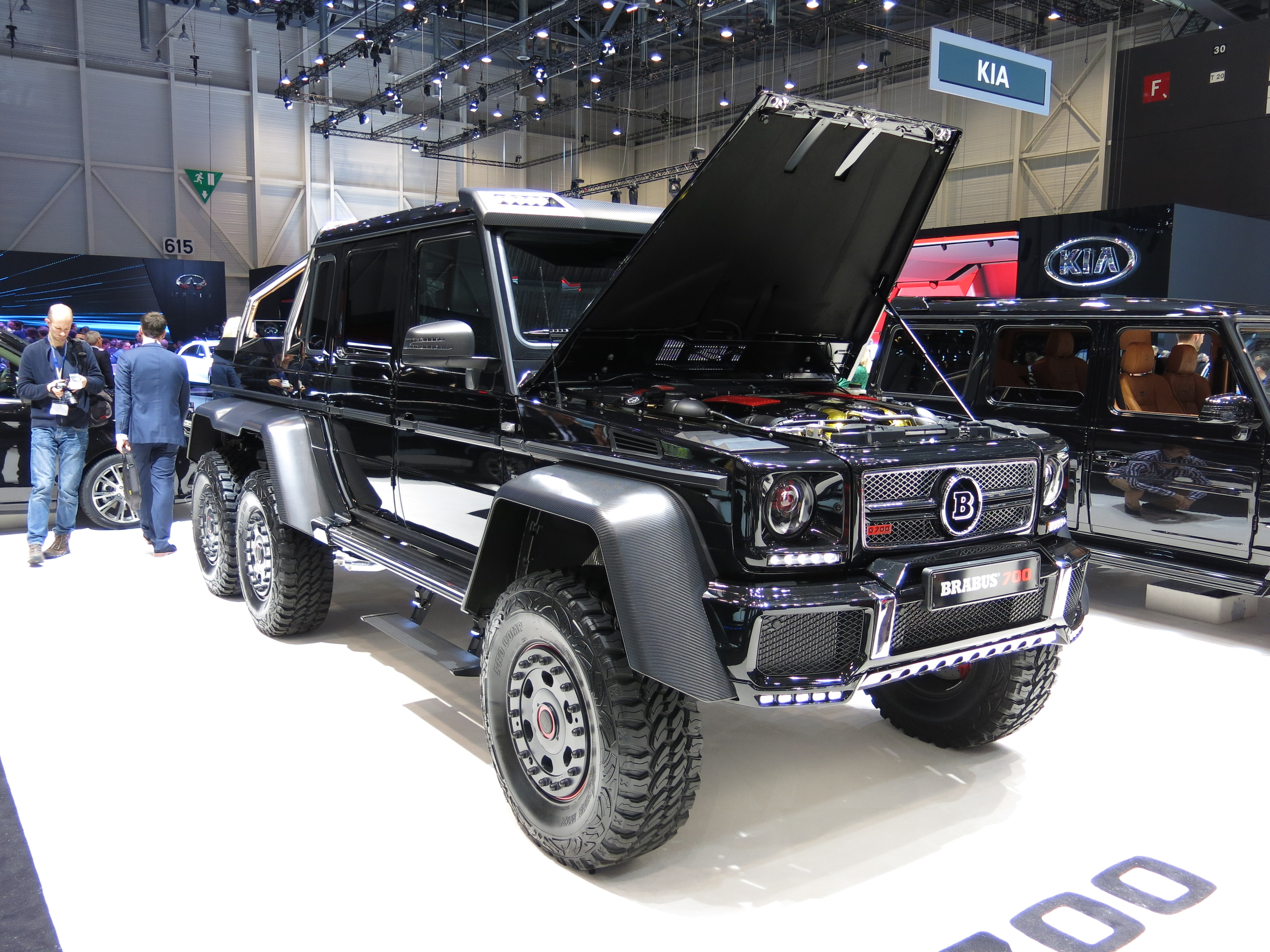 Geneva Motor Show 2015 (photo taken on the first press day)